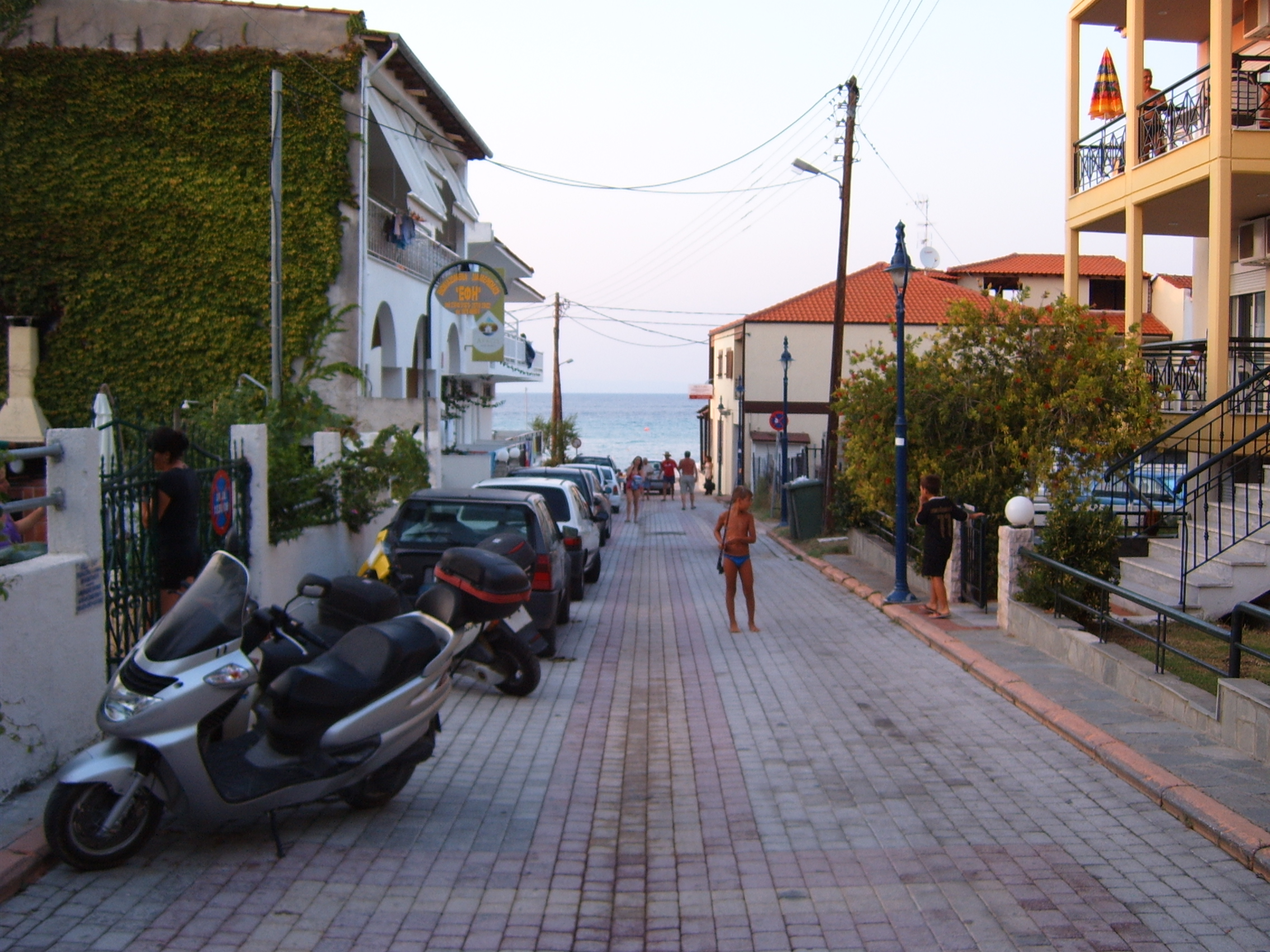 A street in Polychrono, Greece